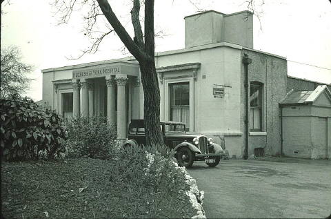 The Duchess of York Hospital for Babies, Burnage. This Hospital was popularly known as Burnage Babies. It is now, sadly, closed and the building is occupied by an nursing home for the elderly. It had a high reputation and took resident medical students as part of their paediatric teaching.